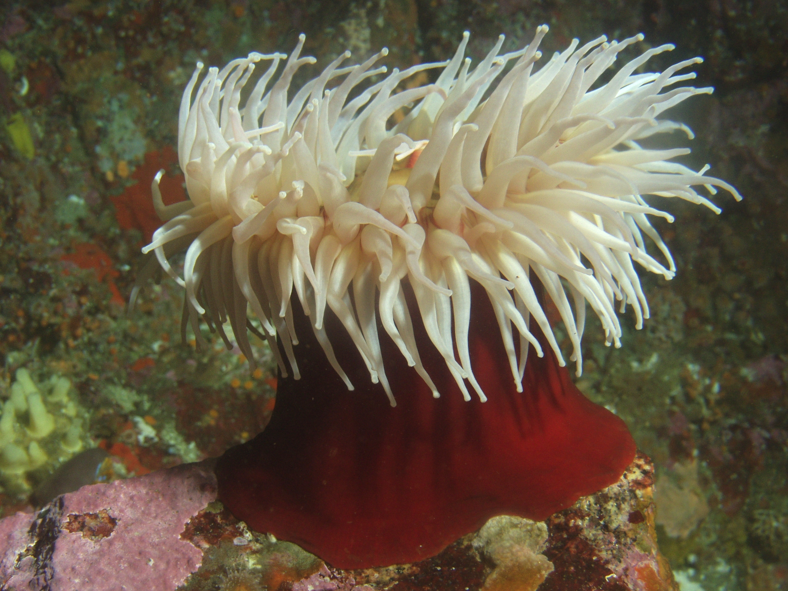 Fish eating sea anemone (Urticina piscivora) on boulder in rocky habitat at 31 meters depth. Latitude 37 41 N., Longitude 123 00 W. California, Cordell Bank National Marine Sanctuary.